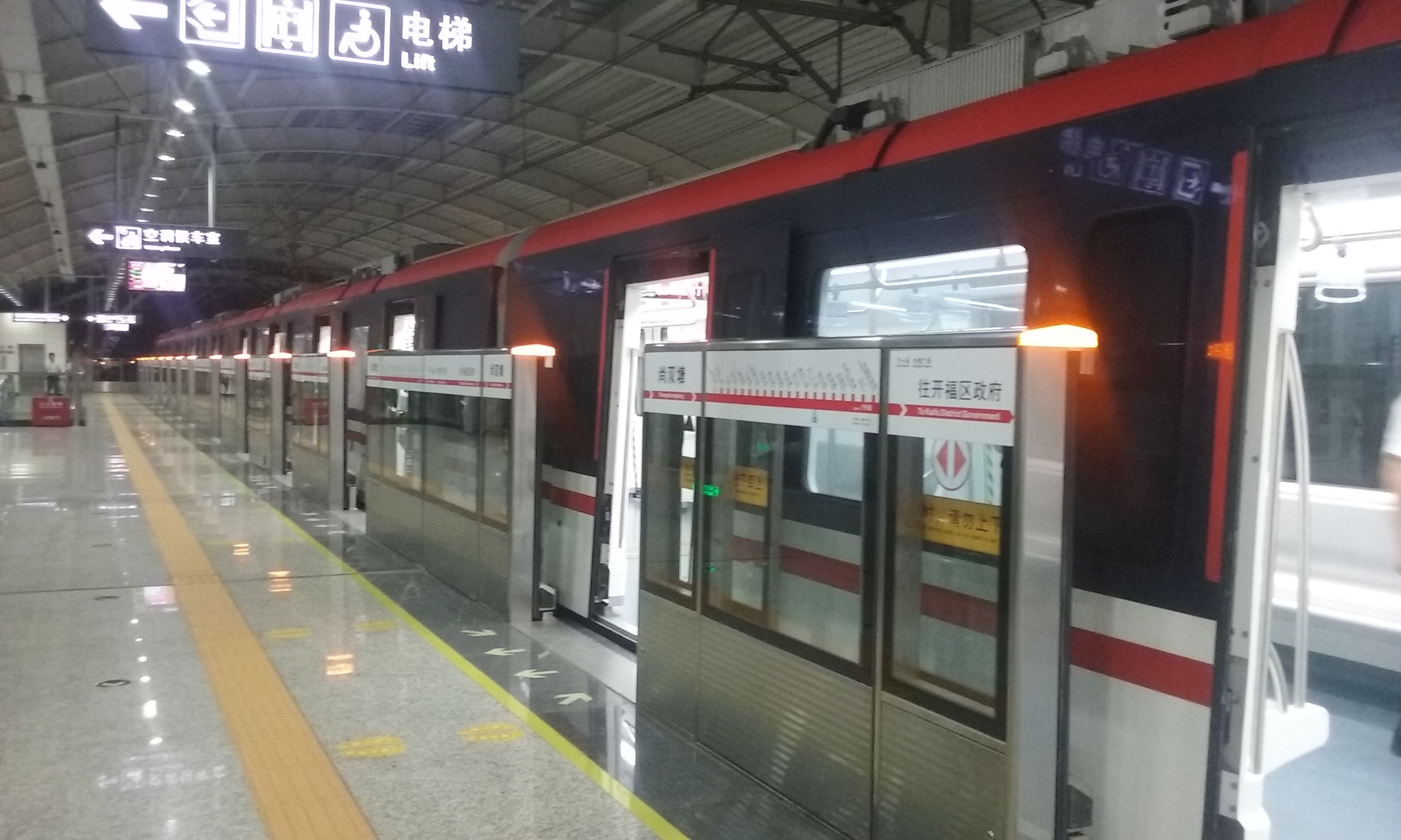 Train of Line 1 waiting for passengers in Shangshuangtang Station